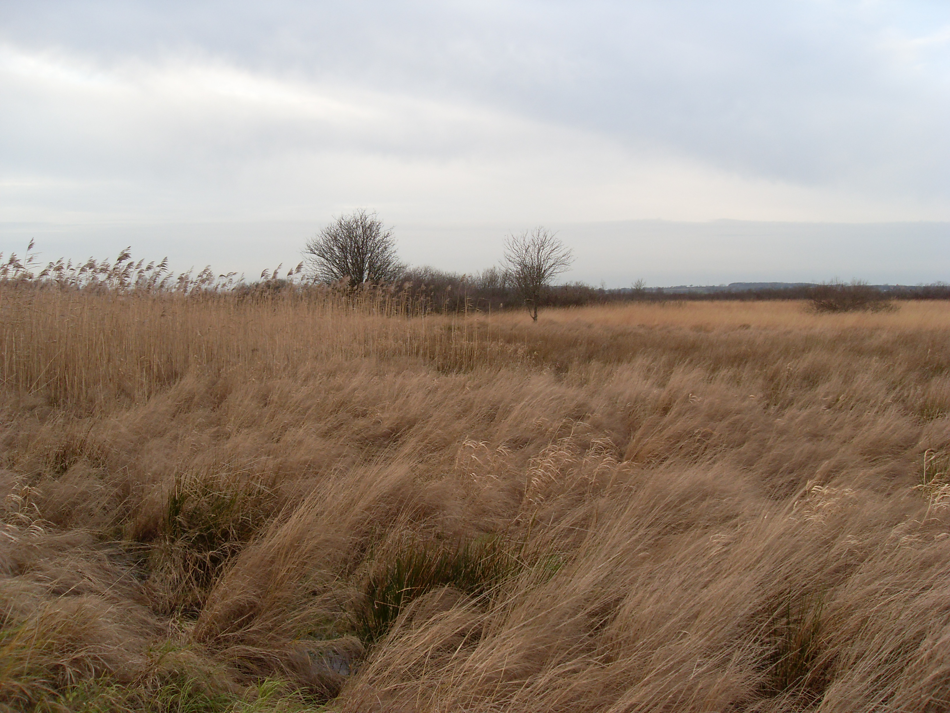 Nature reserve Alte Sorge-Schleife in Schleswig-Holstein